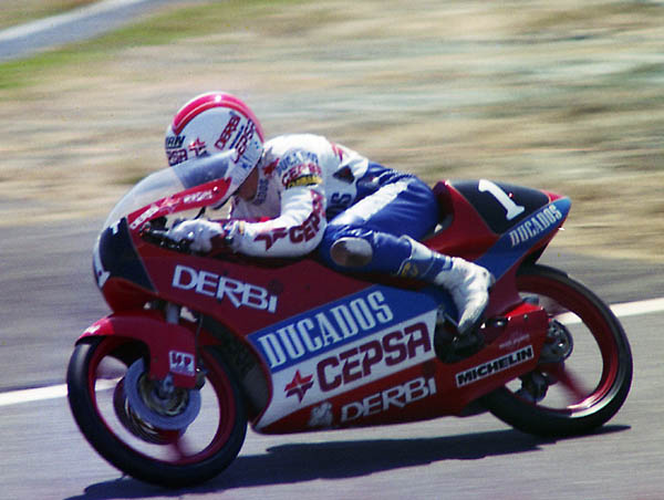 Jorge Martinez, at Japanse Grand Prix 1989